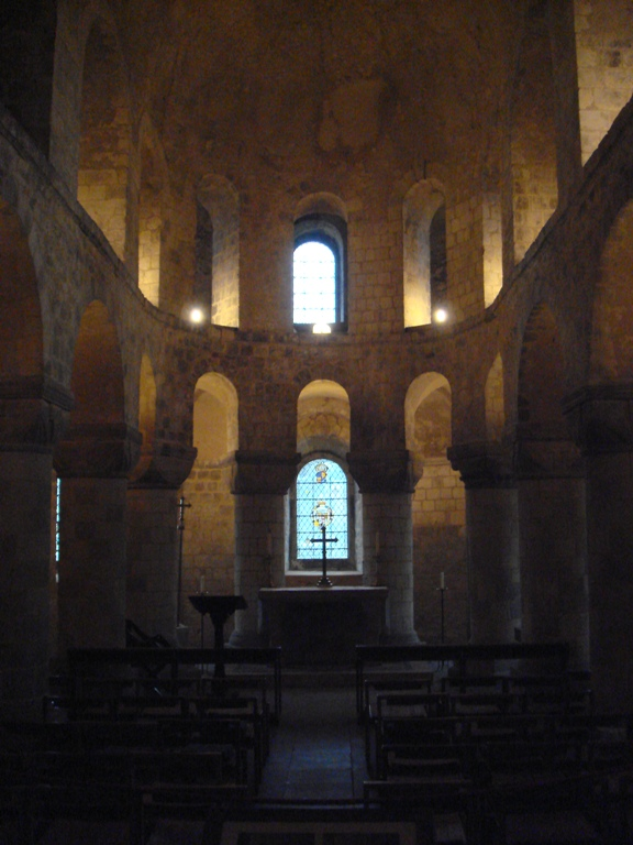 White_Tower_chapelle, Tower of London